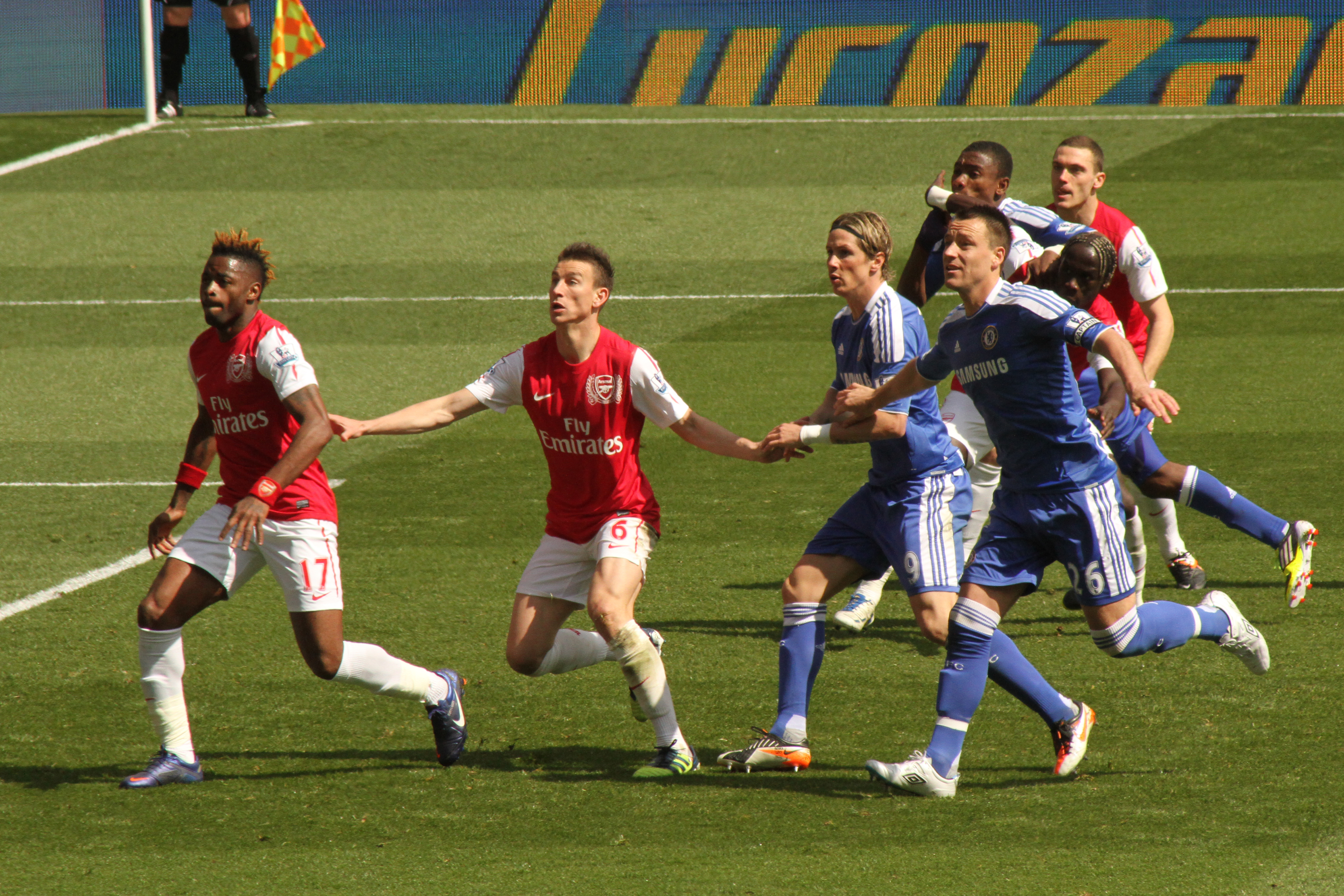 Goal mouth melee 4